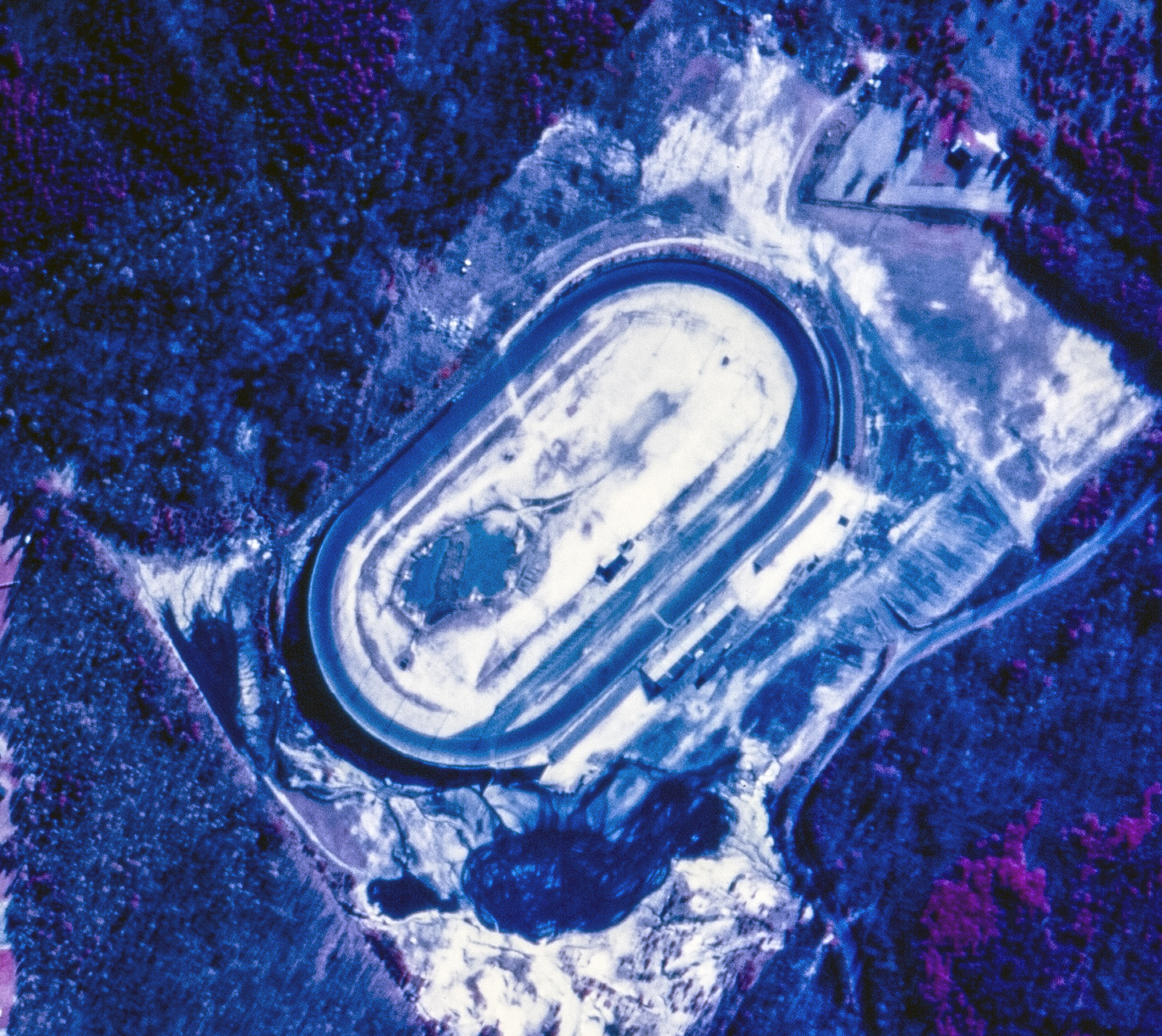 Aerial image of Beltsville Speedway taken in 1972